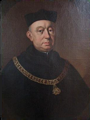 Portrait of Josef von Rudolfi, Prince-Abbot of St. Gall (1717-1740). From Stiftsarchiv St.Gallen